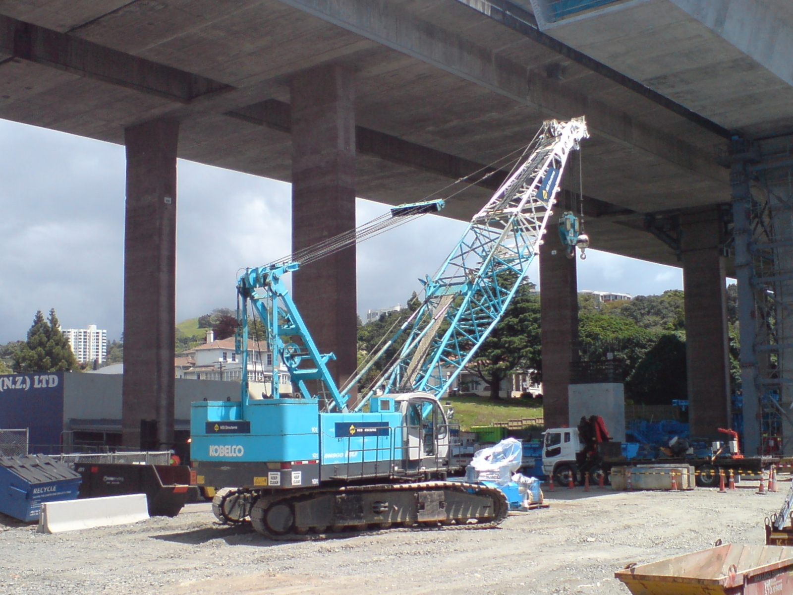 A crawler crane at the replacement works for the Newmarket Viaduct in Auckland City, New Zealand.